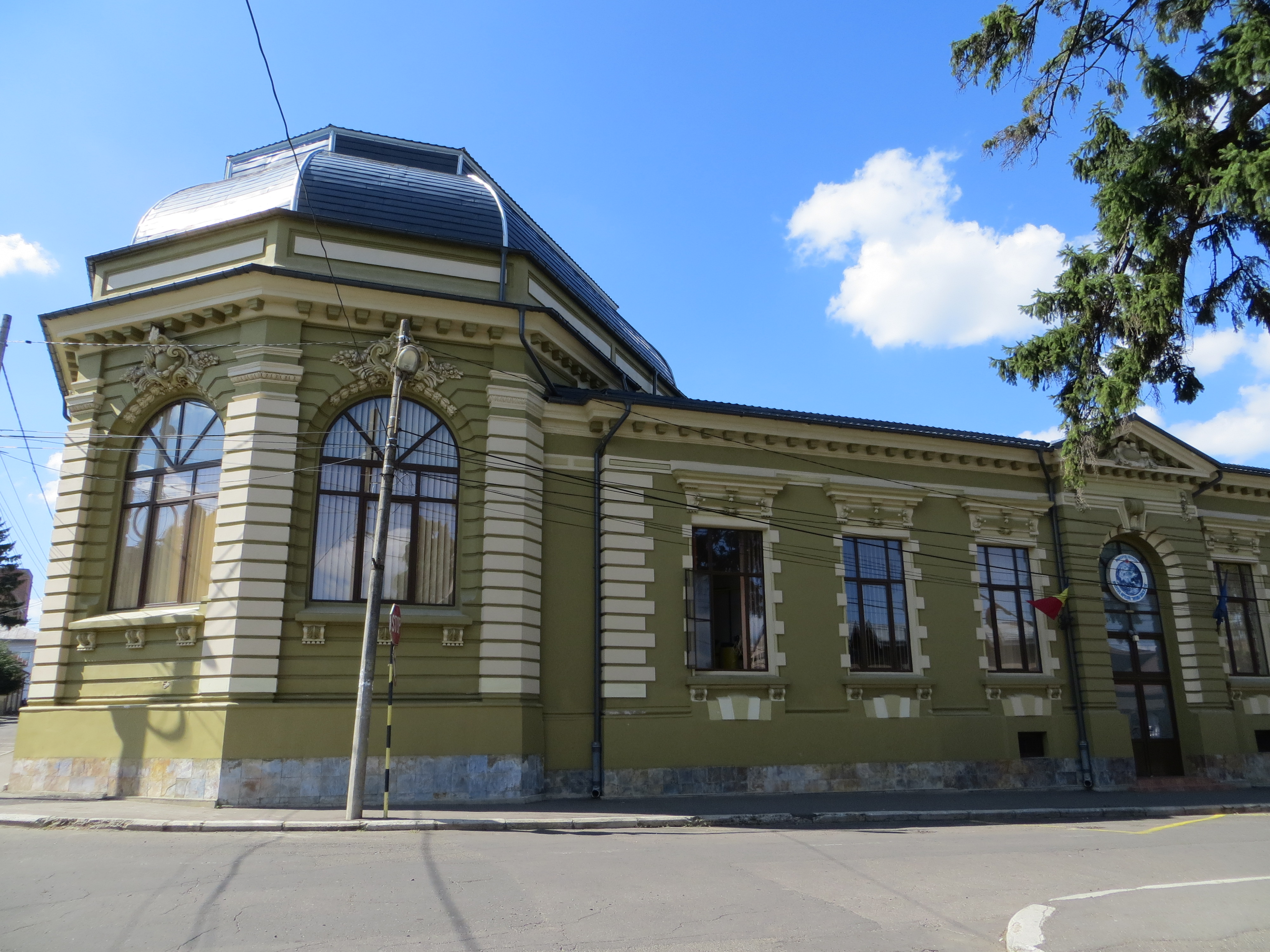 Mihai Băcescu Water Museum, Fălticeni, Suceava County, Romania.